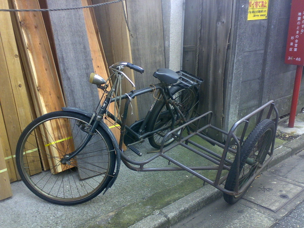 Bicycle with sidecar